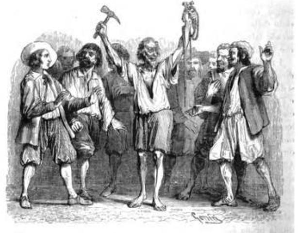 The most famous Italian historical romance,and the masterpiece of Alessandro Manzoni.